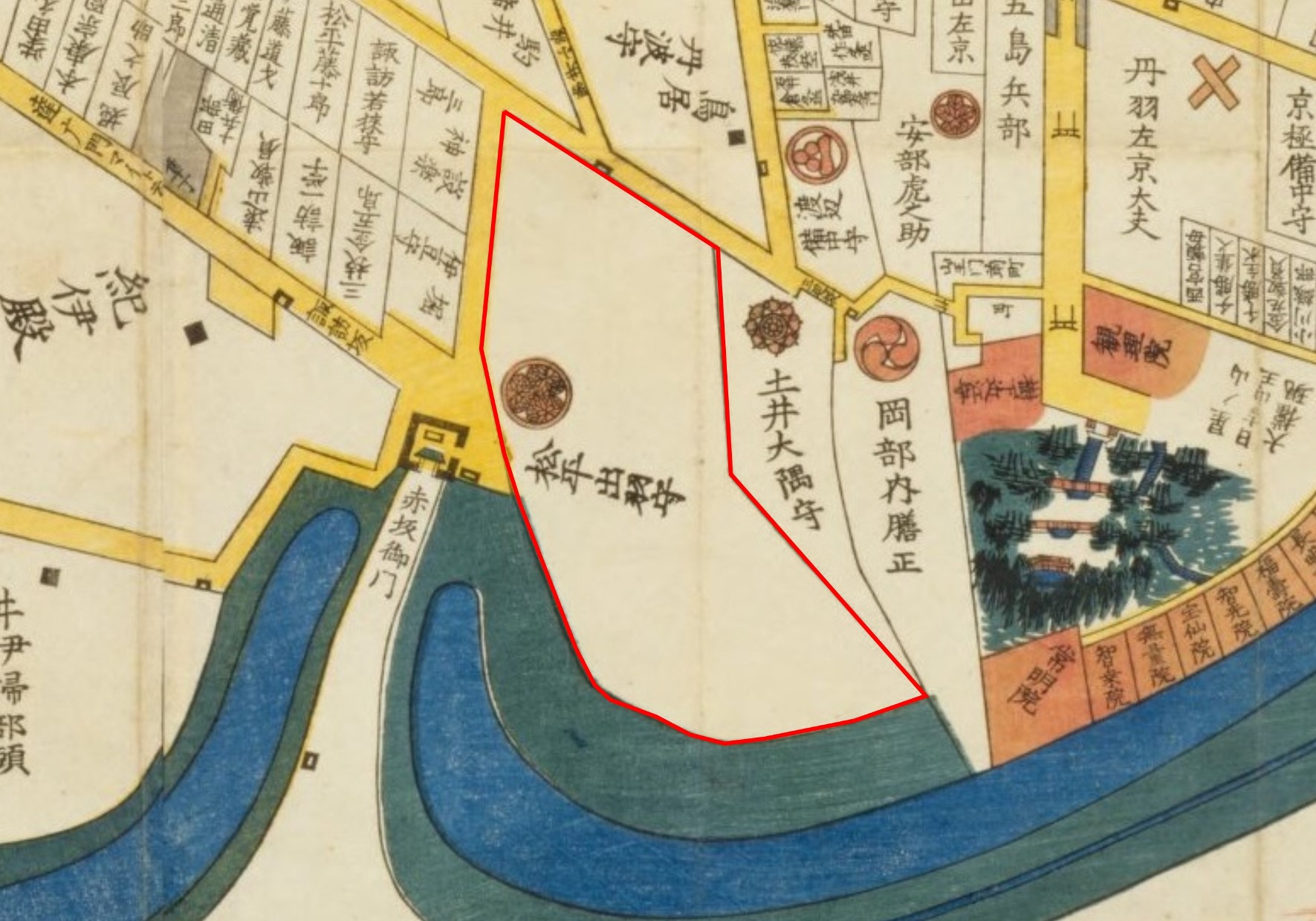 Matsudaira Matsue Residence at Edo